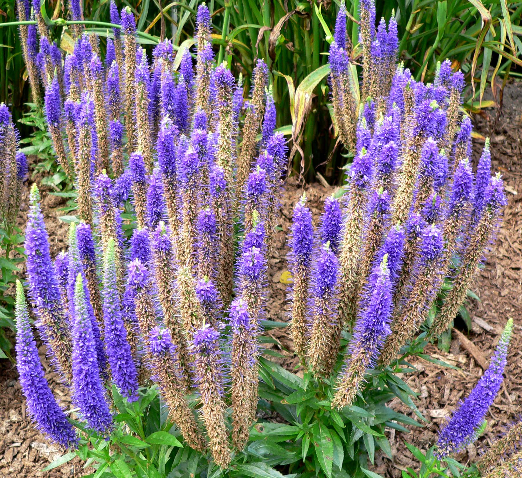 Photo of Veronica spicata 'Glory' at VanDusen Botanical Garden